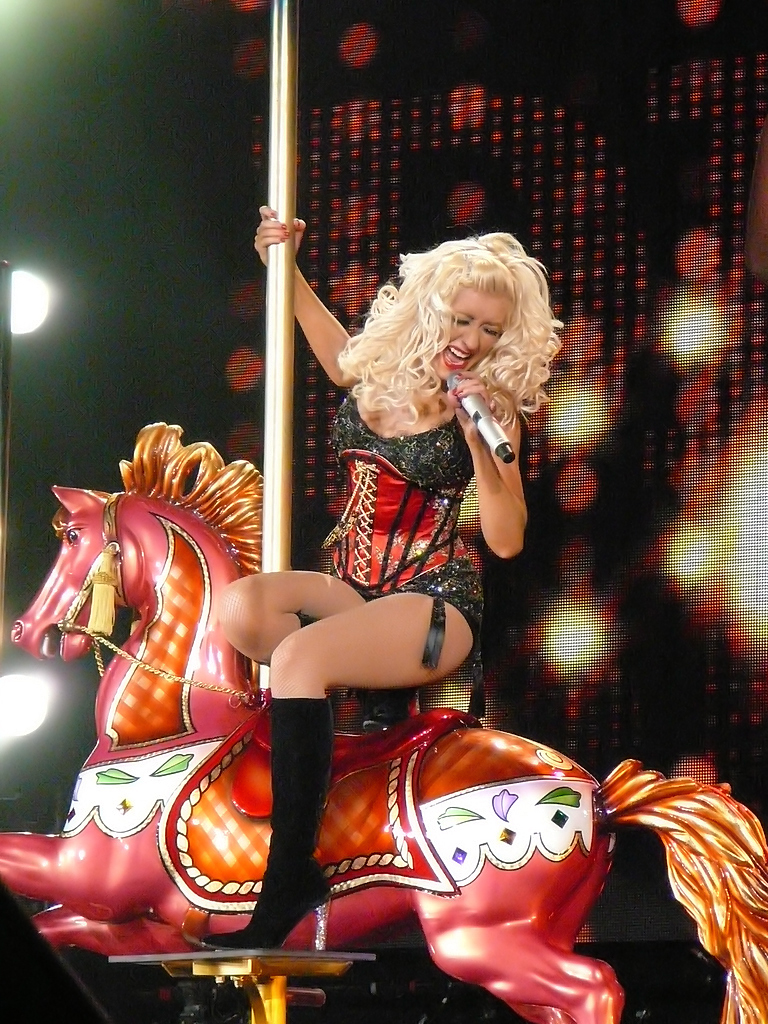 Christina Aguilera sings "Dirrty" during her "Back to Basics Tour"